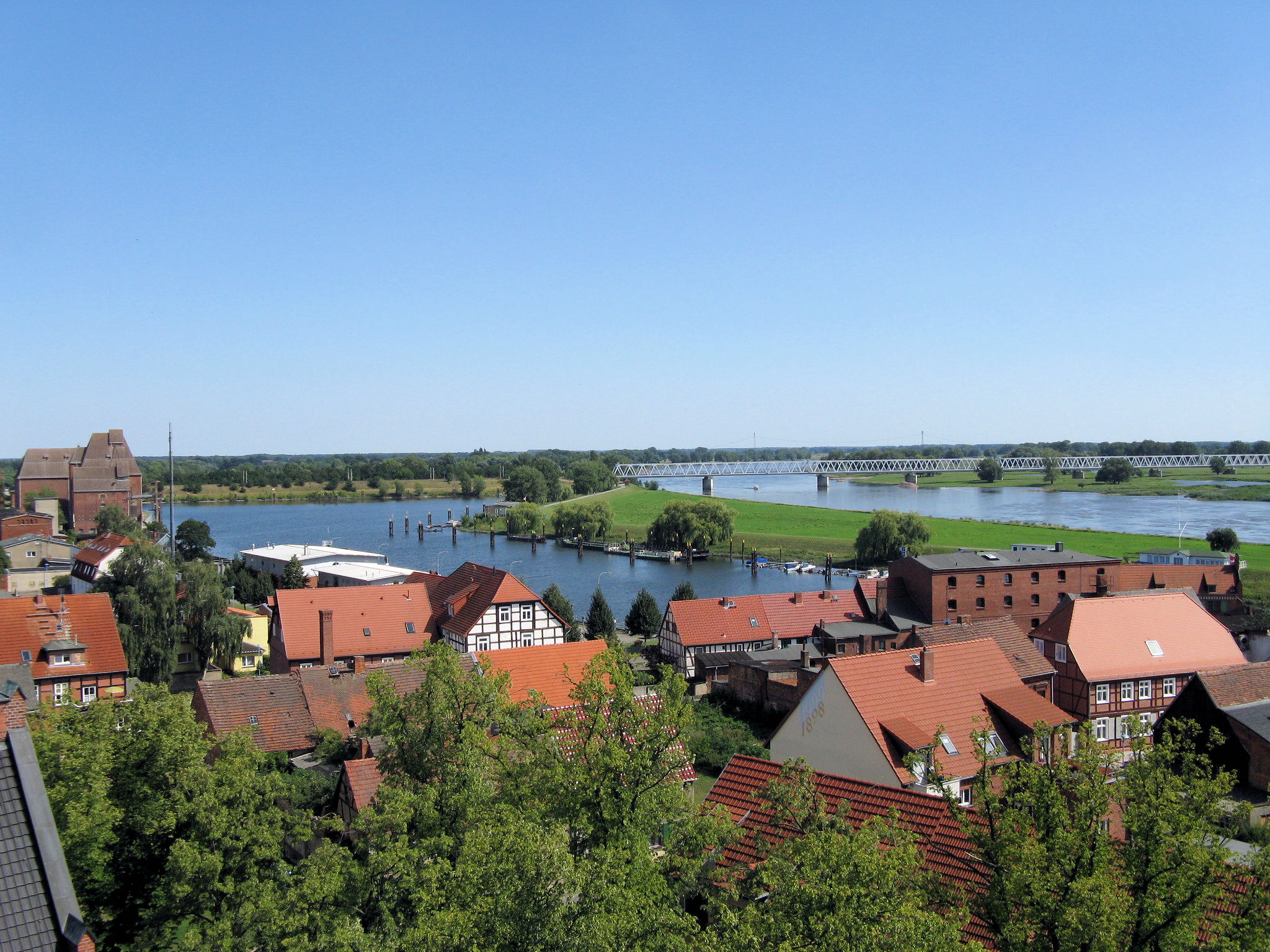 Stepenitz, Elbe and railway bridge in Wittenberge, disctrict Prignitz, Brandenburg, Germany